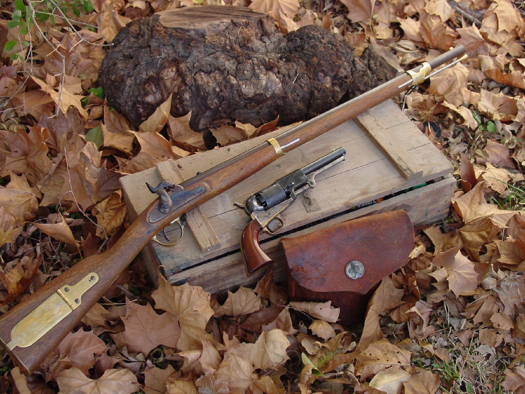 A replica of the 1841 Mississippi Rifle over a replica Colt Third Variation .44 Revolving Holster Pistol "Dragoon"-c:1849